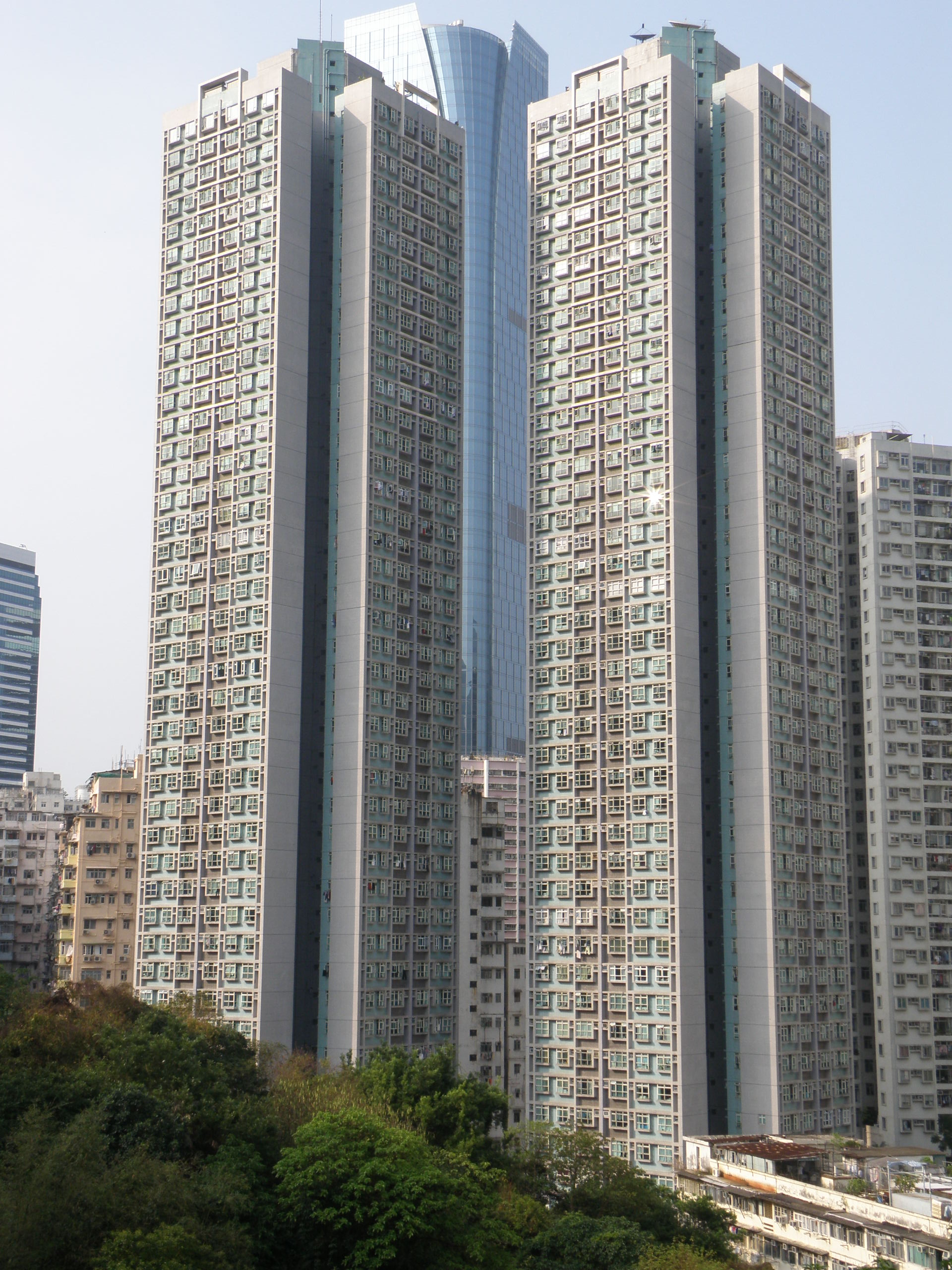 Kornville in Kornhill, Hong Kong.